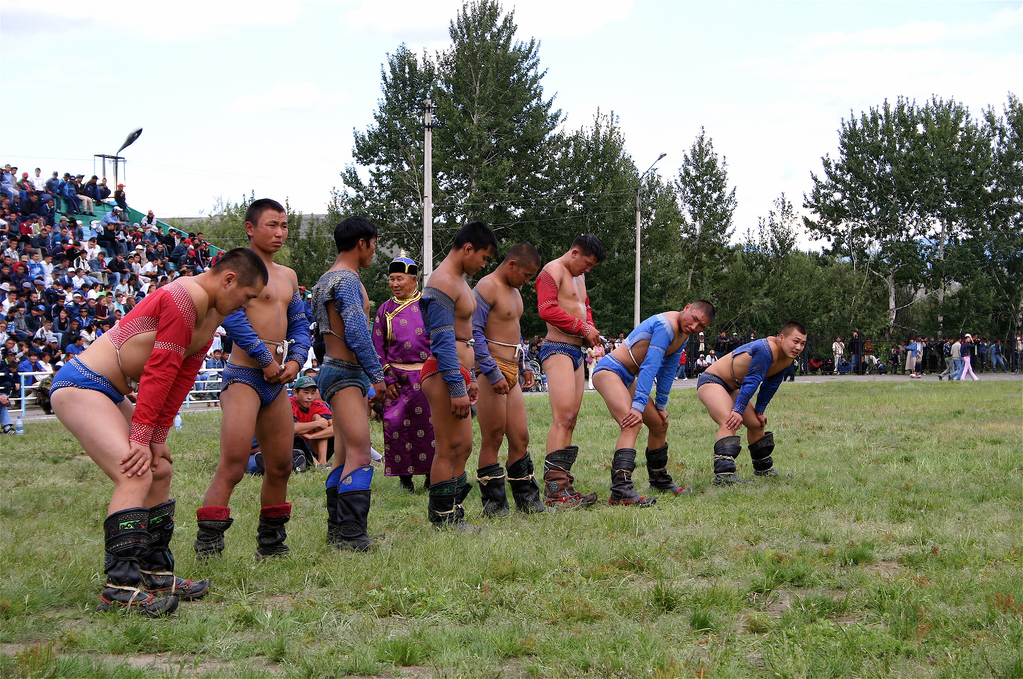 Tuvan wrestlers in Kyzyl. Тыва дыл: Кызыл, Наадым, хуреш.